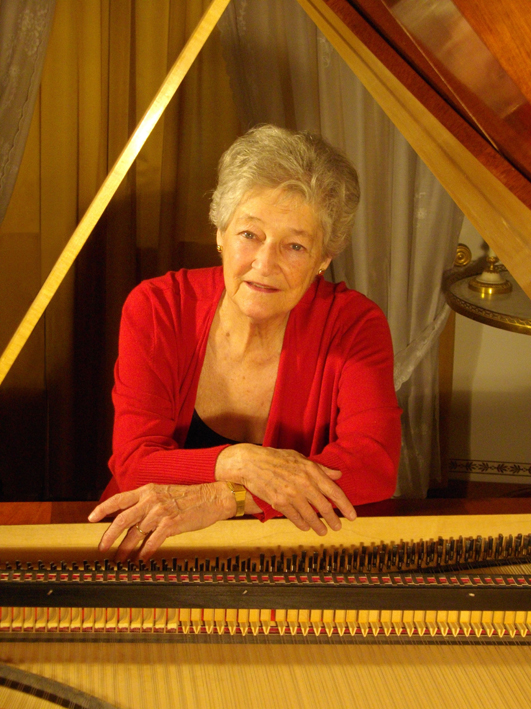 Trudelies Leonhardt with her Pianoforte